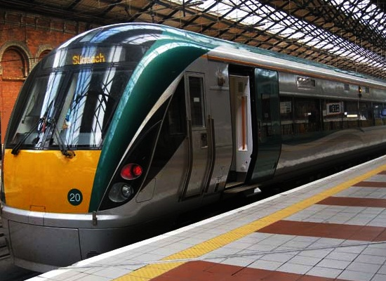 22000 Class InterCity commuter train in Ireland.